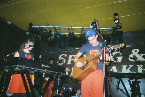 Sufjan Stevens performing live at the Spring & Airbrake, 13th October 2005.